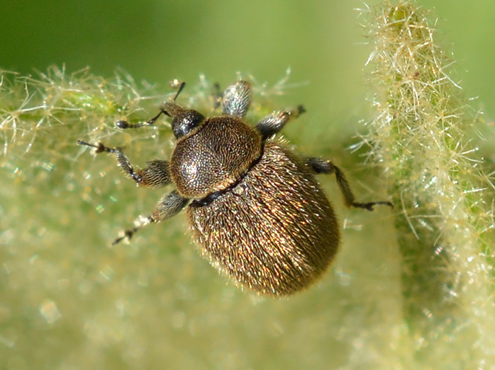 The weevil Rhinusa tetra on a mullein (Verbascum sp.) around Botevgrad, Bulgaria. 4-5mm long.